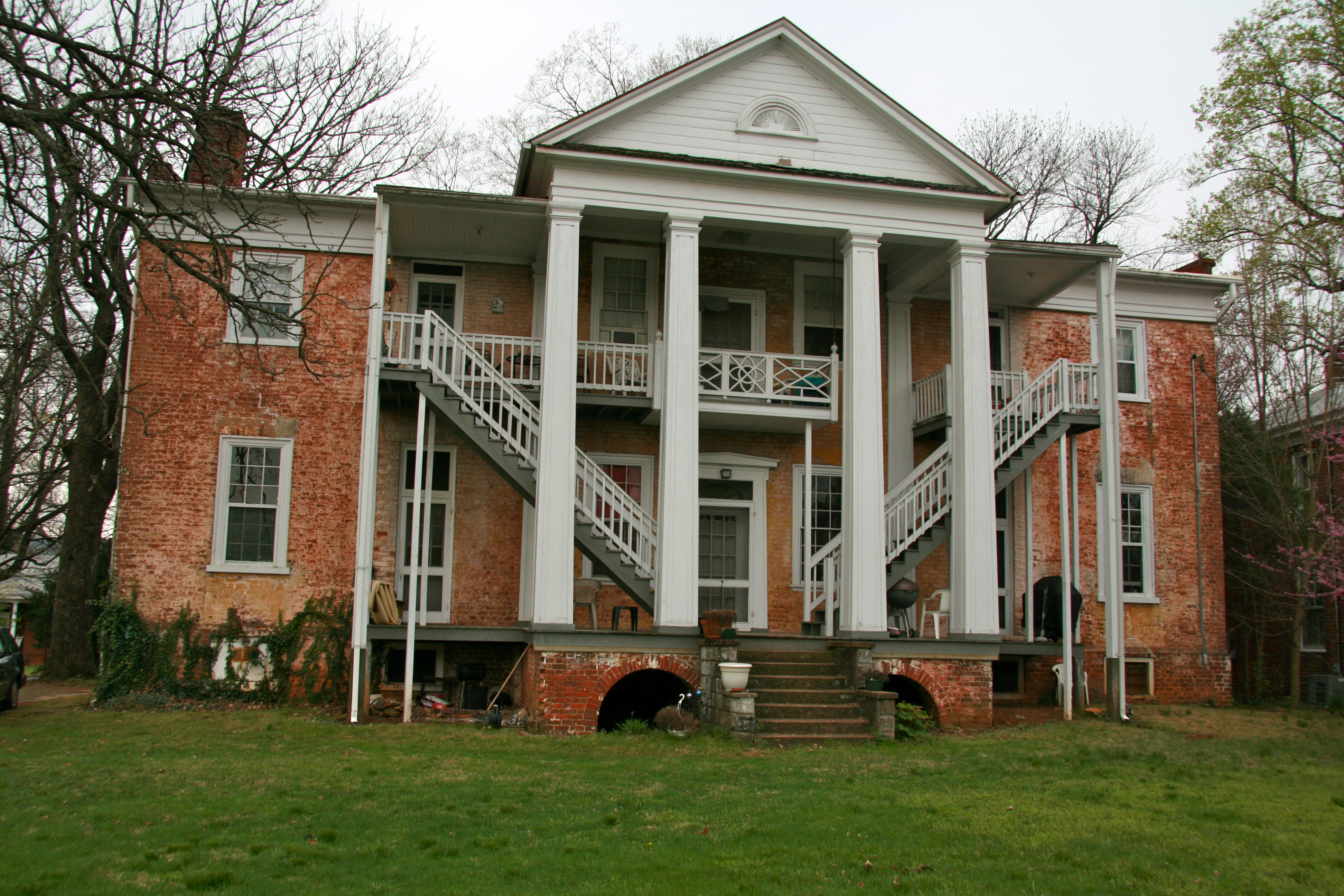 Belmont